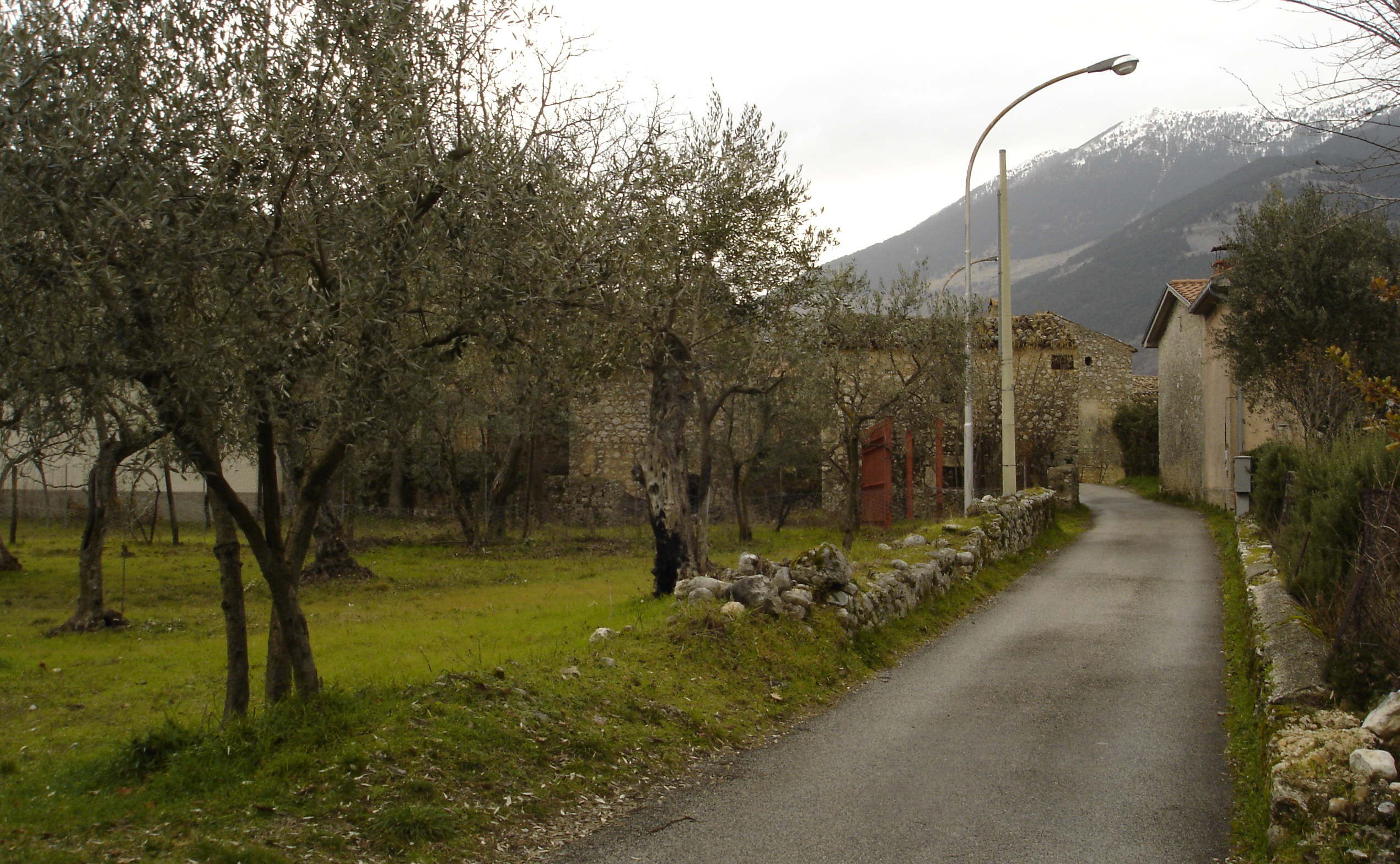 Sant'Onofrio Alvito (curtis substratum)